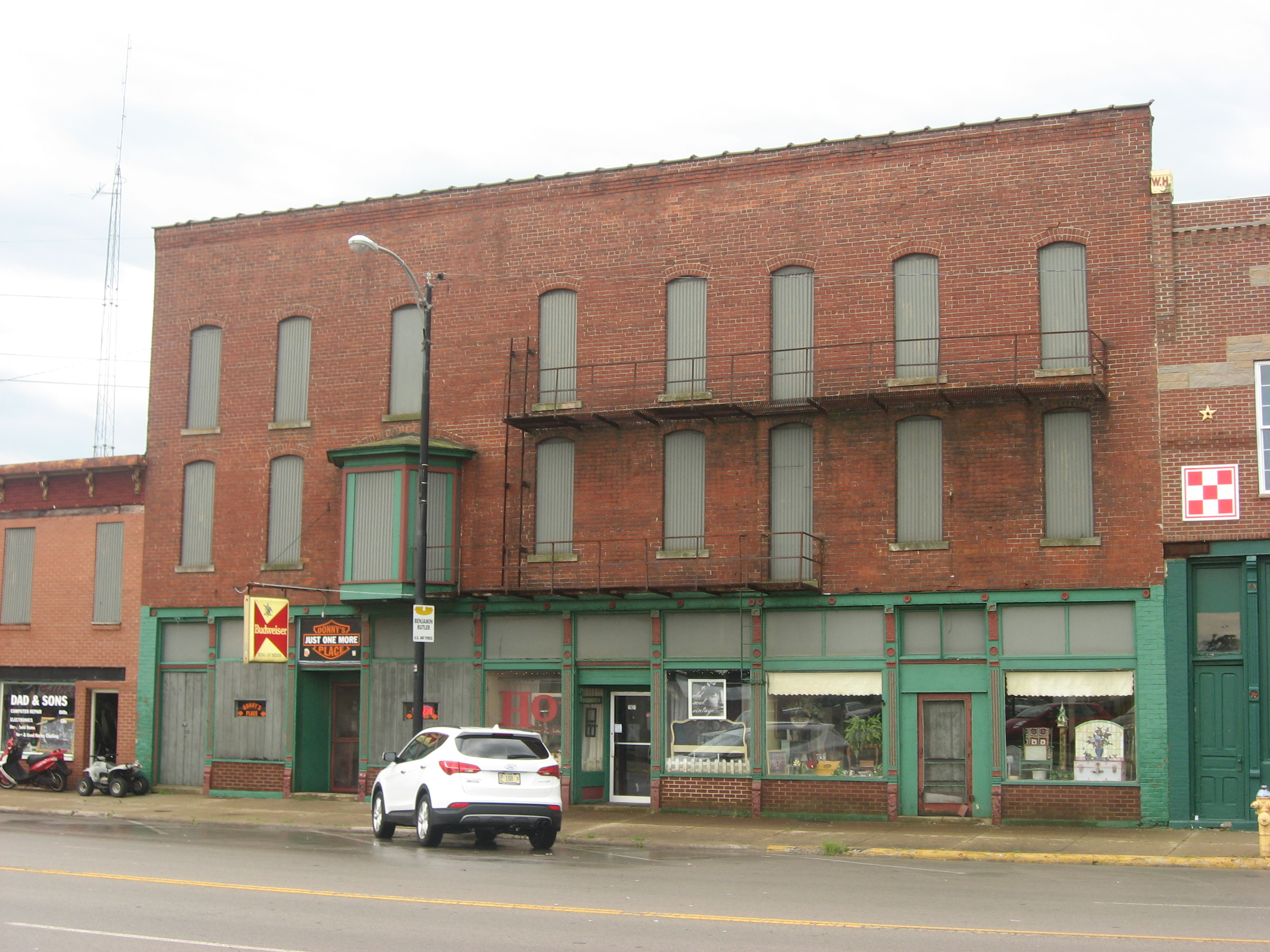 Front of the Starr Hotel, located at 1913-1923 Western Avenue in Mattoon, Illinois, United States. Built in 1888, it is listed on the National Register of Historic Places.